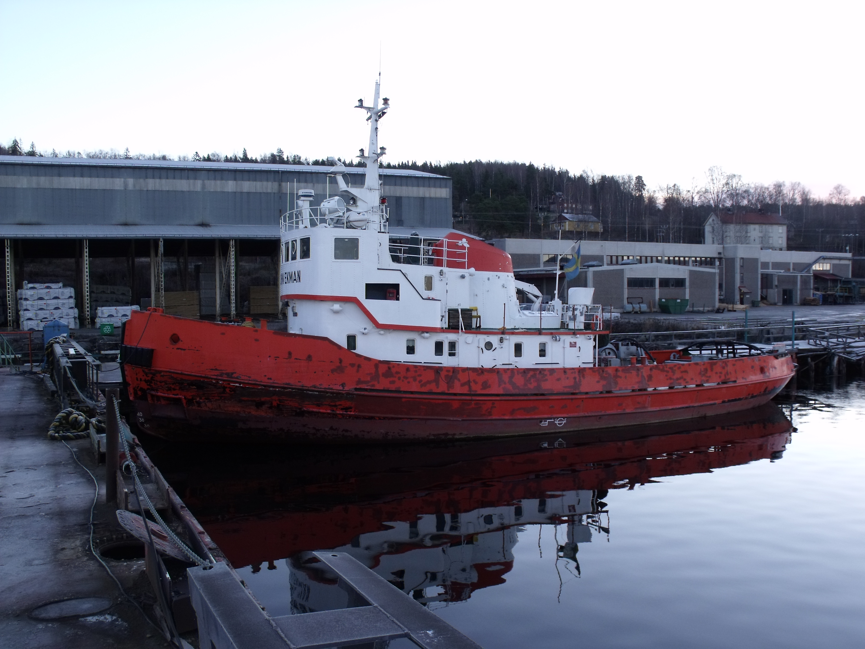 John Ekman in Lugnvik